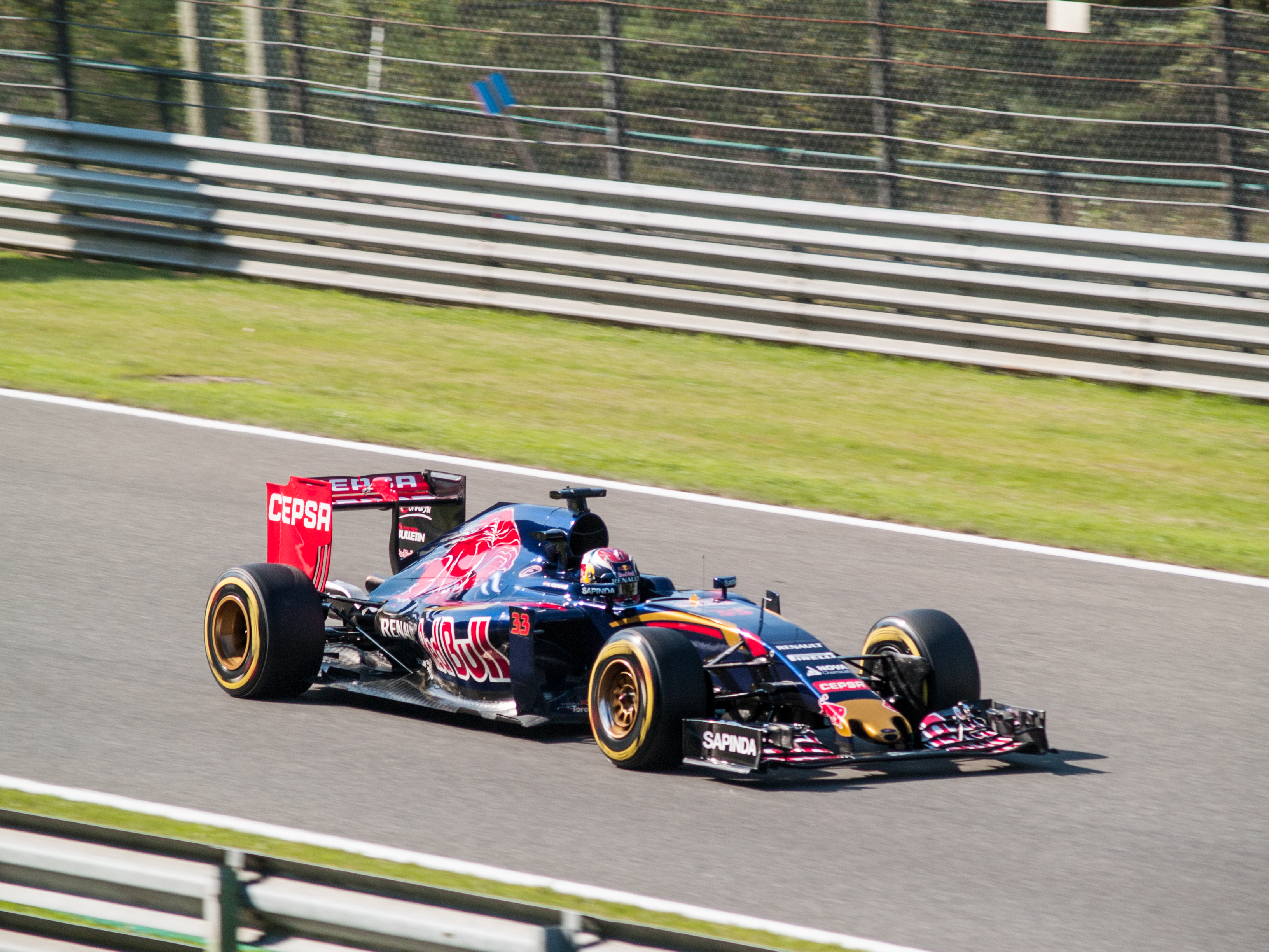 Max Verstappen at the 2015 Belgian Grand Prix